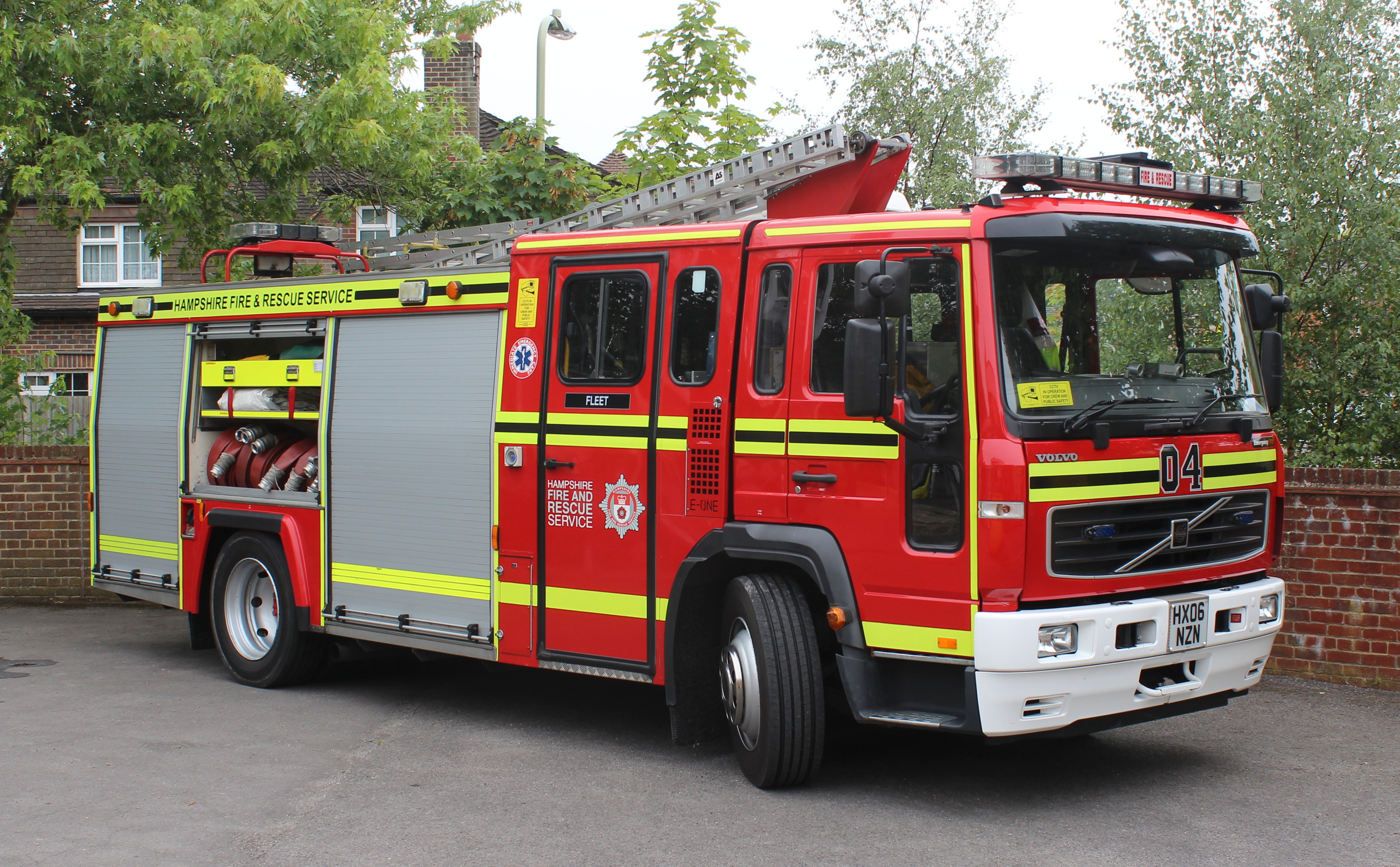 View of Hampshire File and Rescue Service fire appliance vehicle HX06 NZN. The vehicle is built on a Volvo FL6-11 chassis with bodywork by Emergency One. The label on the rear passenger door shows that it is based at Fleet fire station.